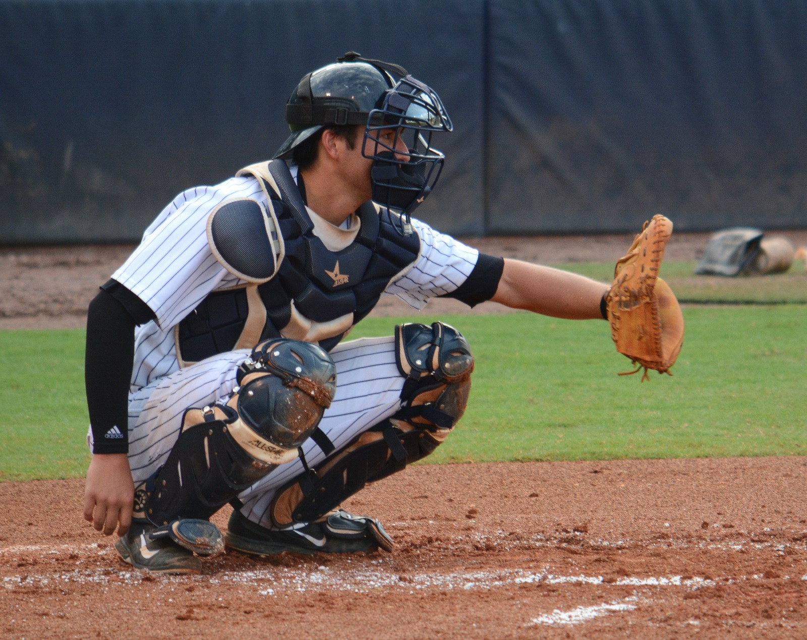 Tampa Yankees catcher Kyle Higashioka behind the plate against Charlotte on July 16, 2015.